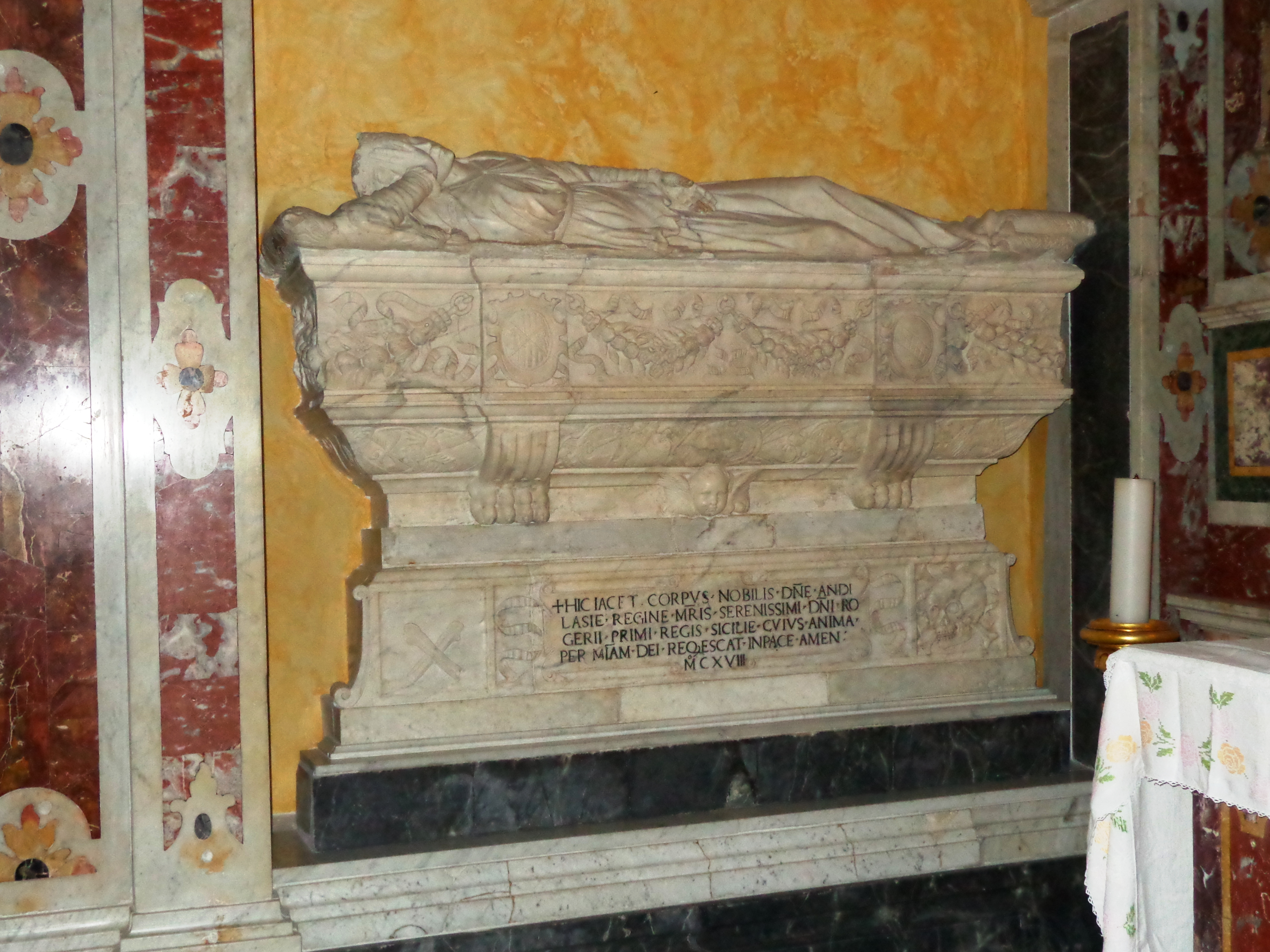 Tomb of Andilasie, Adelasia del Vasto. On her sarcophagus, one of the coat of arms displayed is her husband Roger of Sicily of the Hauteville family. Blazon: "Azure, a bend chequy of Gules and Argent."